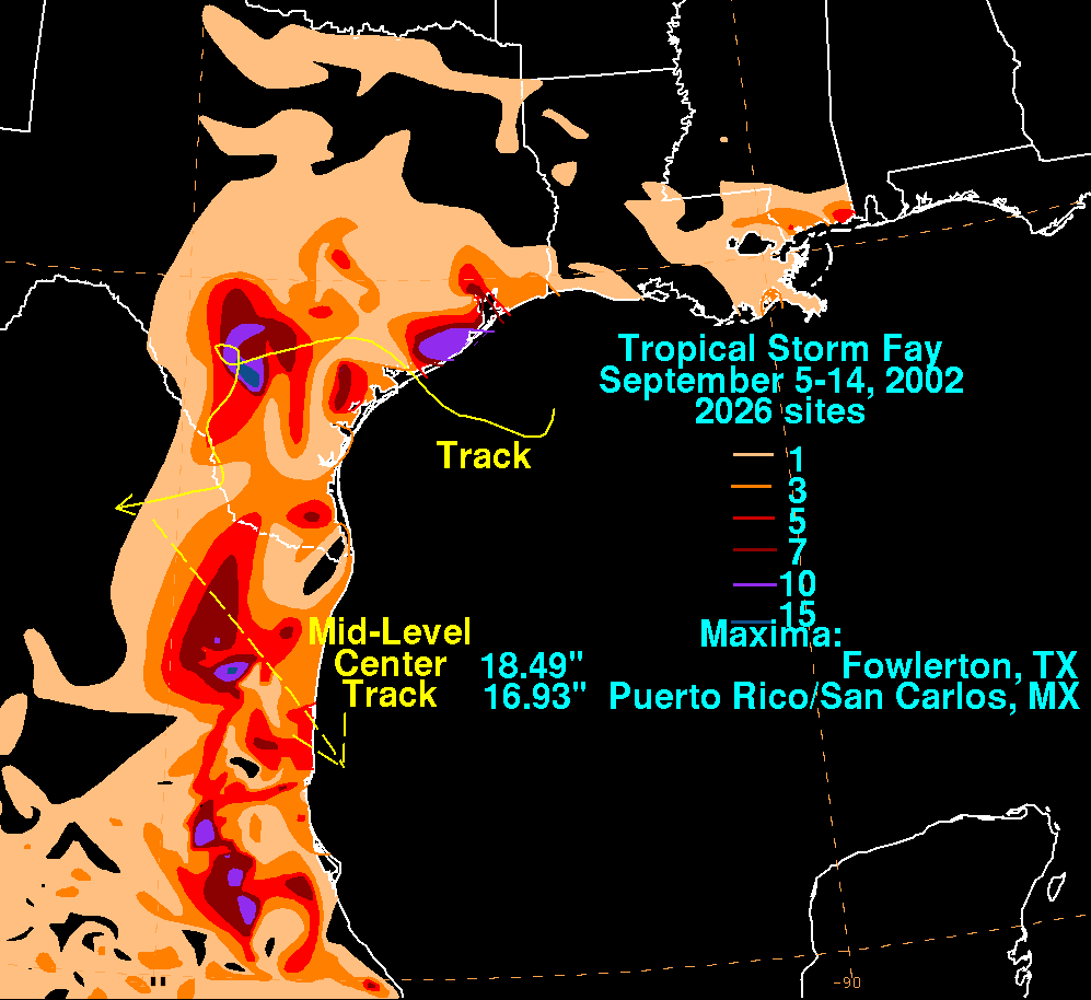 Rainfall produced by Tropical Storm Fay during September 2002.